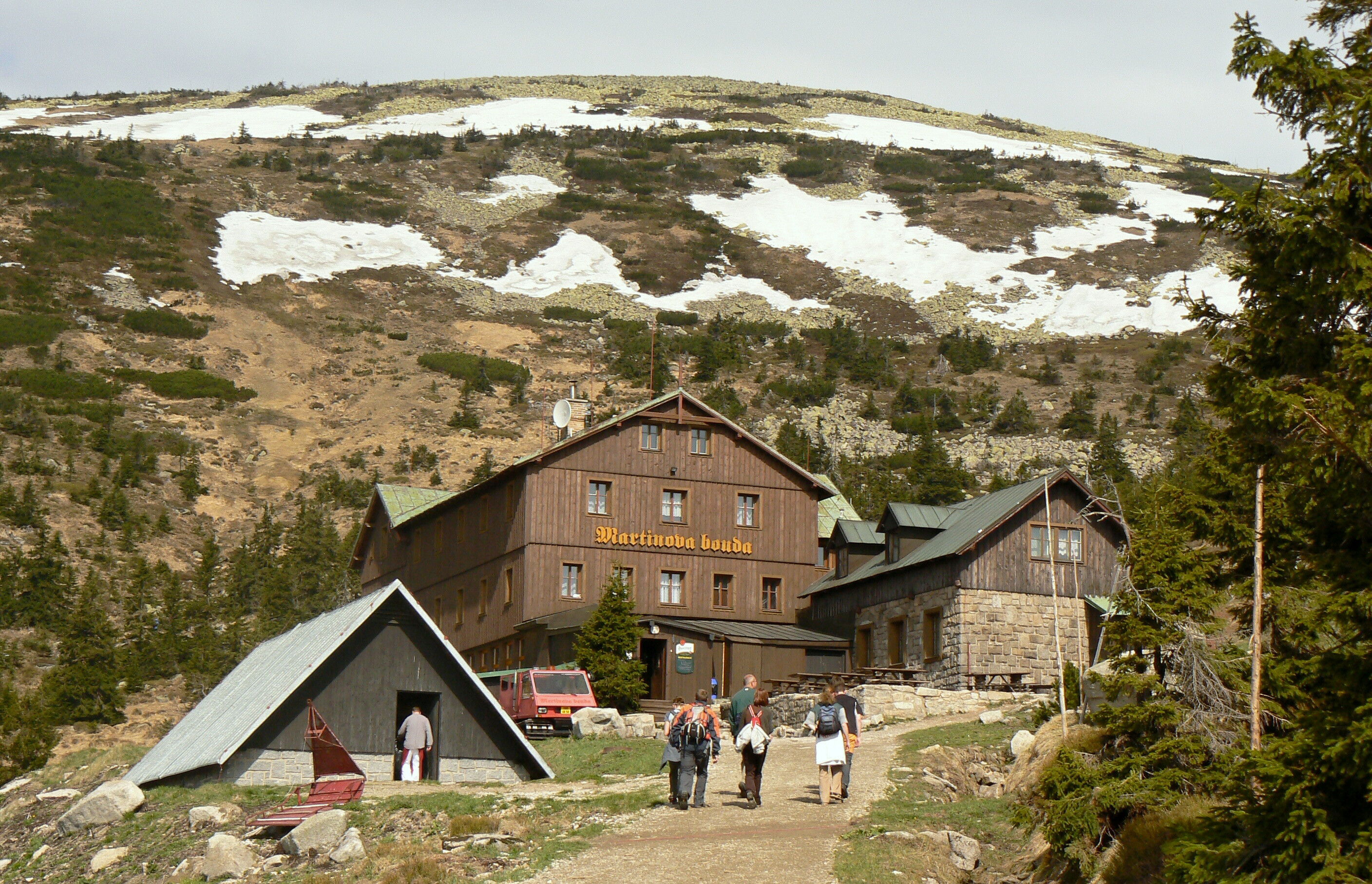 One of the huts (Martinova bouda) in Krknoše (on Giant Mountains) national park